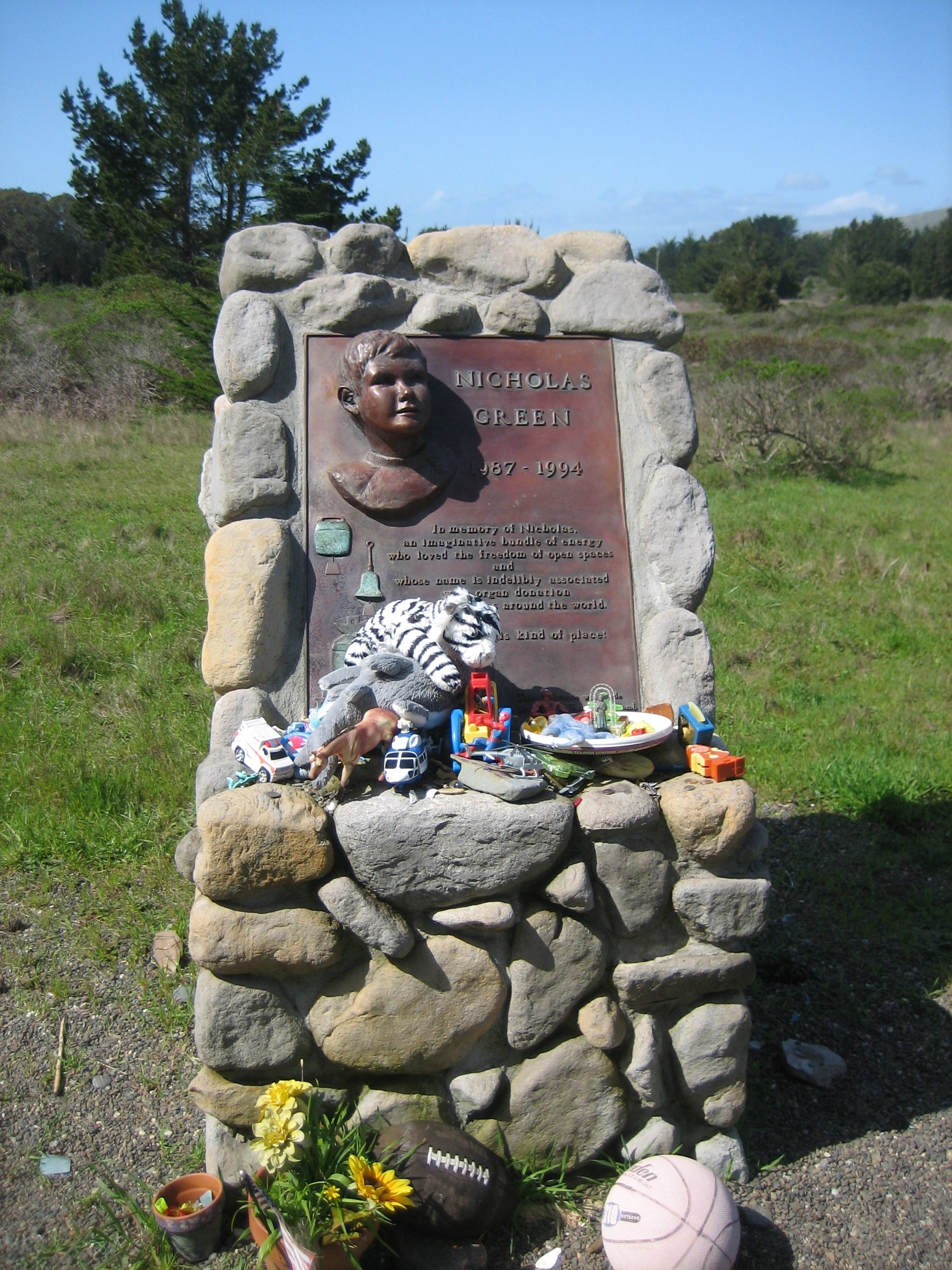 Nicholas Green memorial